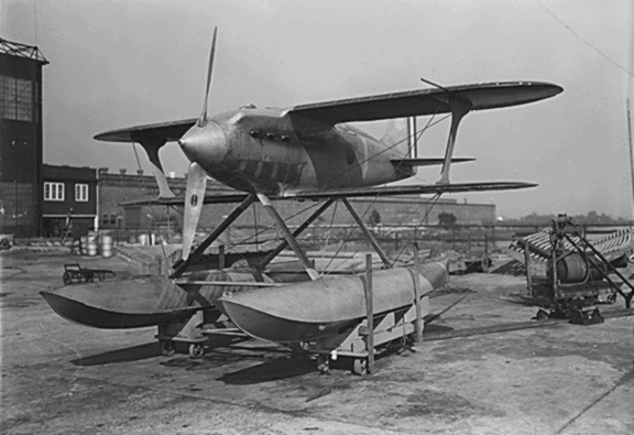 A U.S. Navy Curtiss R3C-3 racer at the Naval Aircraft Factory, Philadelphia, Pennsylvania (USA) on 14 October 1926.